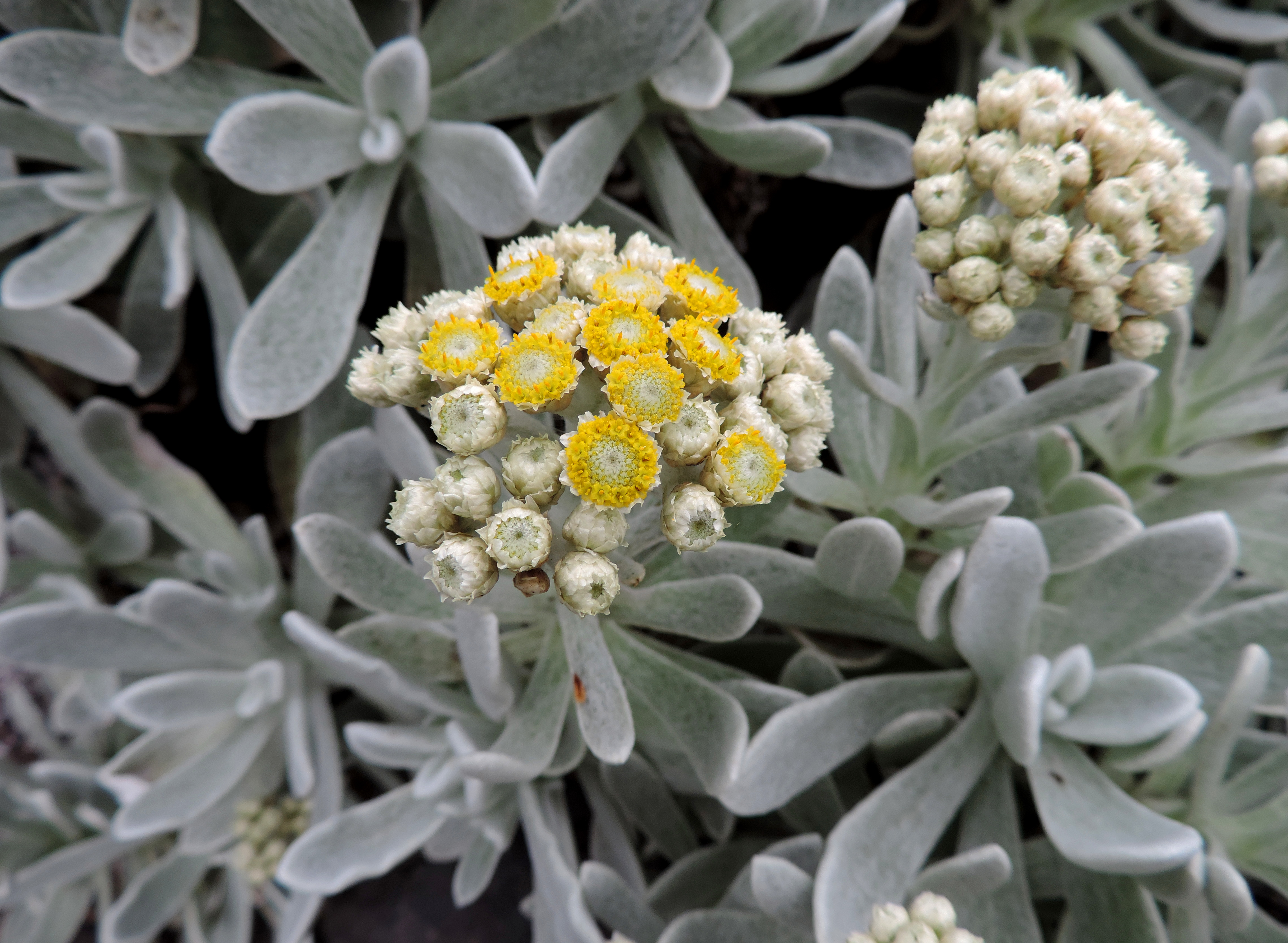 Helichrysum gossypinum in Jardín Botánico Canario Viera y Clavijo